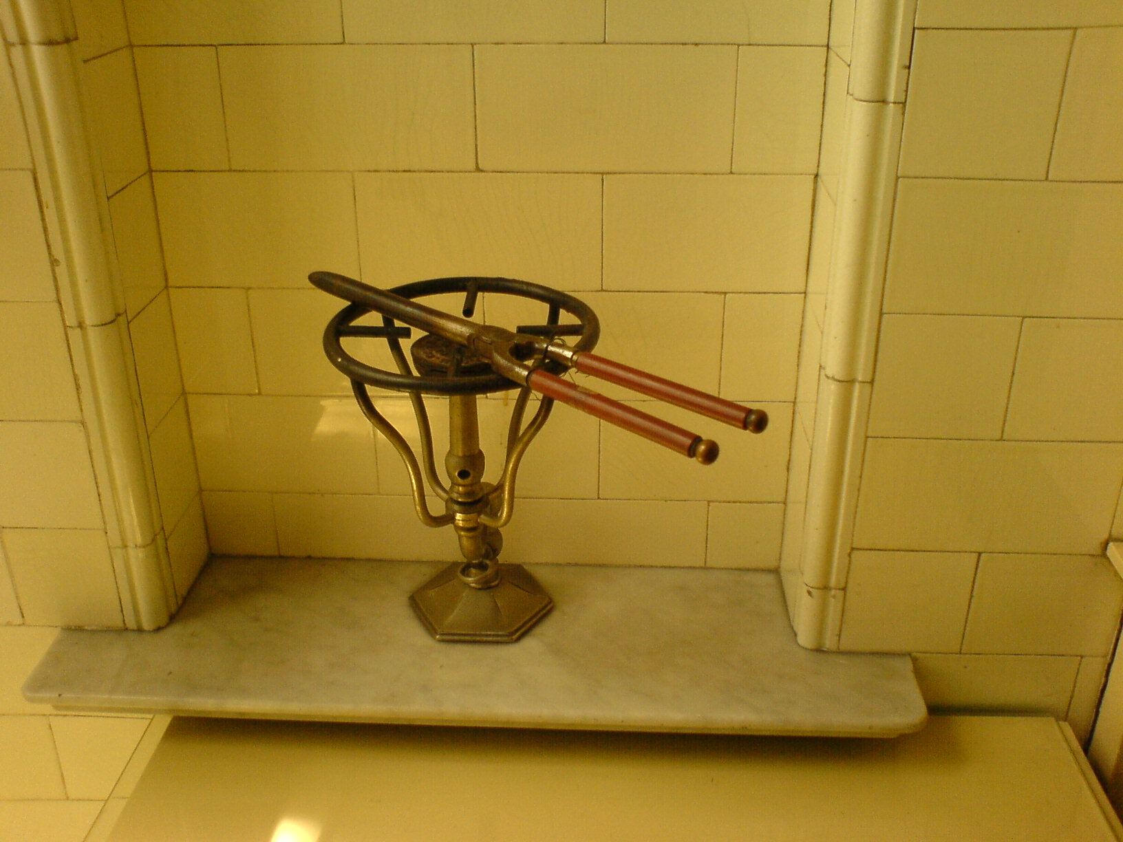 Early Hair Tongs on display in an Edwardian Bathroom in San Francisco.